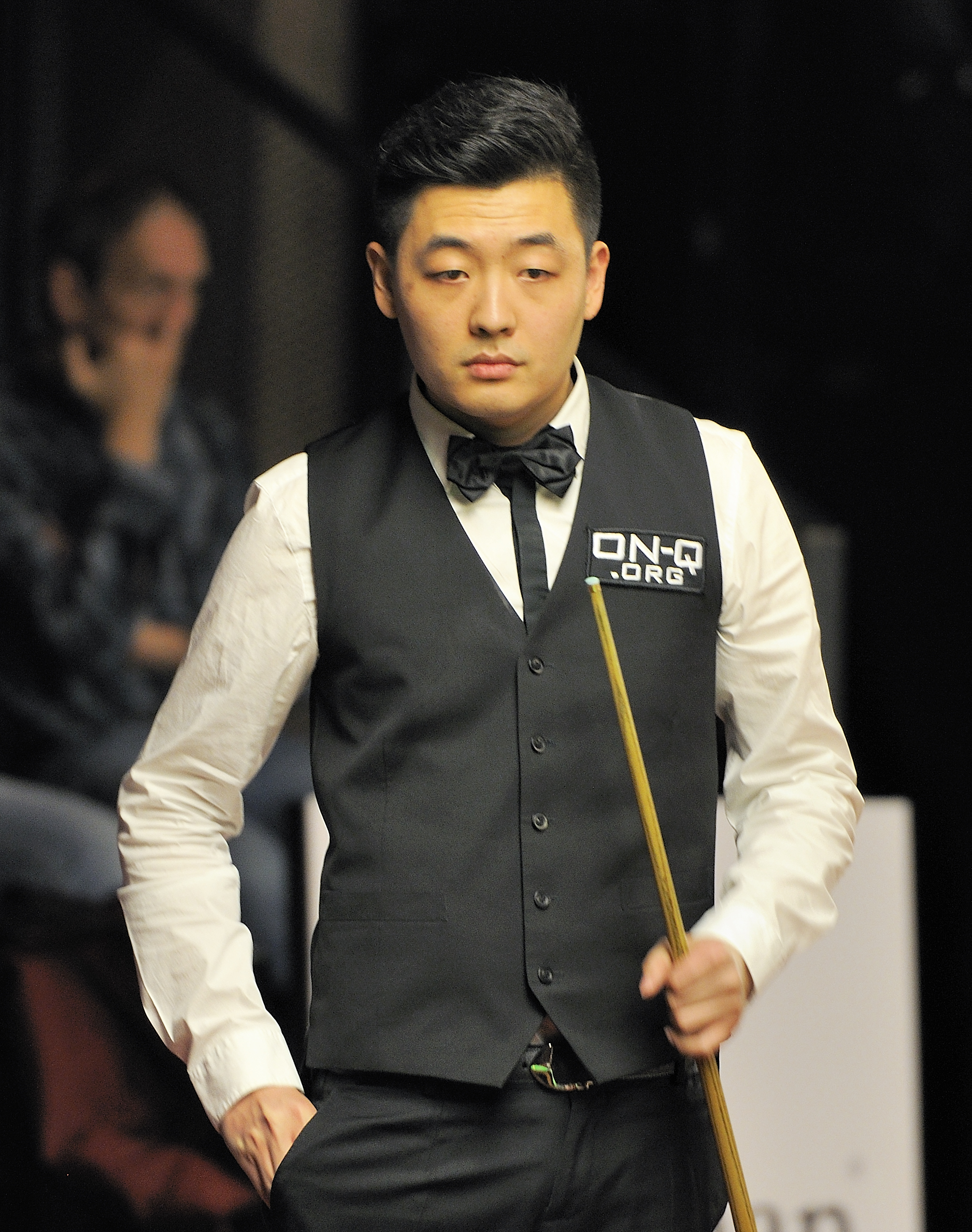 Picture taken in Berlin during the Snooker German Masters in 2014. Tian Pengfei.